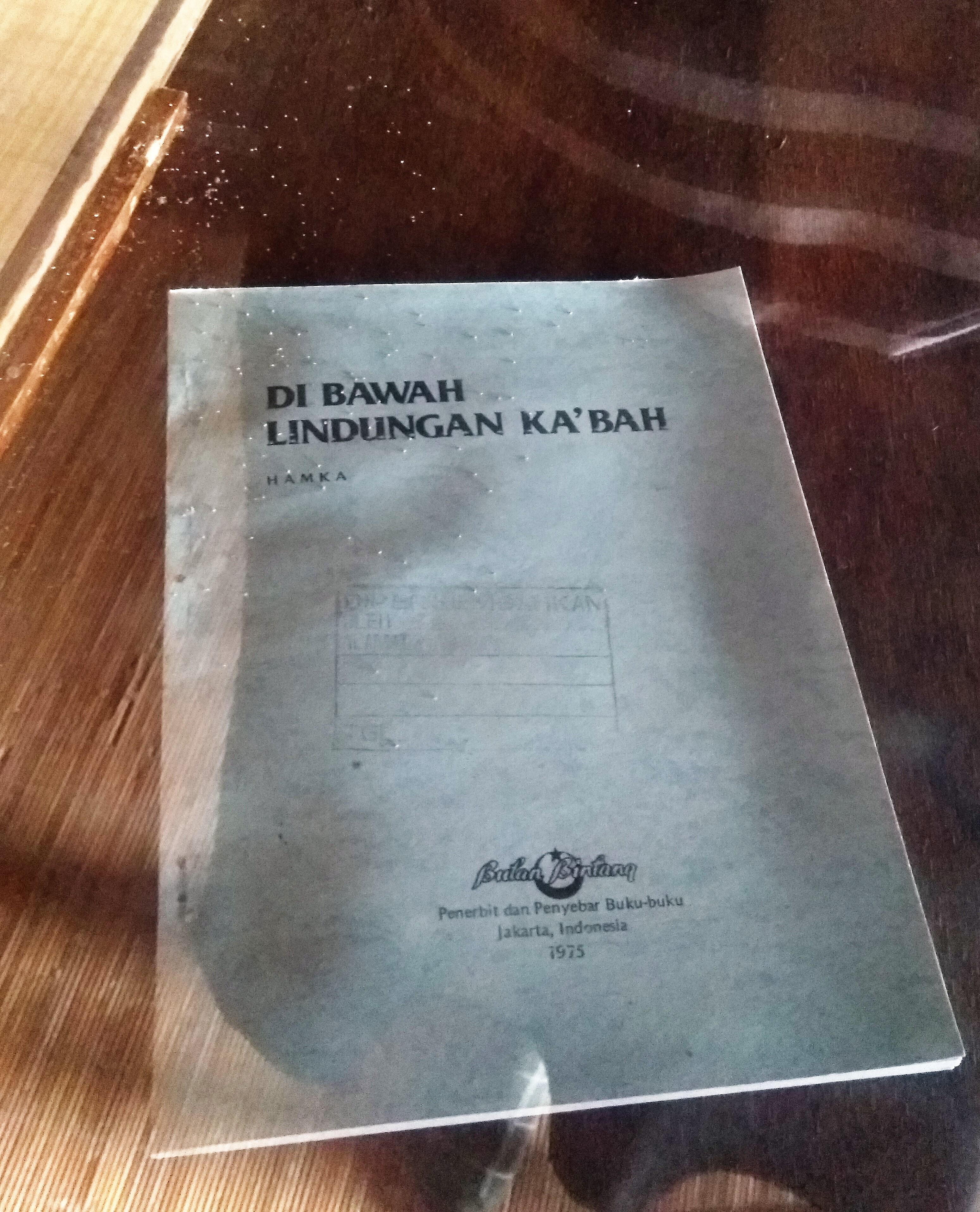 the 1975 version, under Jakarta-based Bulan Bintang Publishing. Taken at the Hamka Museum in Maninjau, West Sumatera.